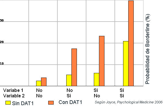 A graphics showing the data obtained by Joyce and colleages in 2006, revealing association between Child abuse + neglect (variable 1), borderline temperament (variable 2). (Spanish)